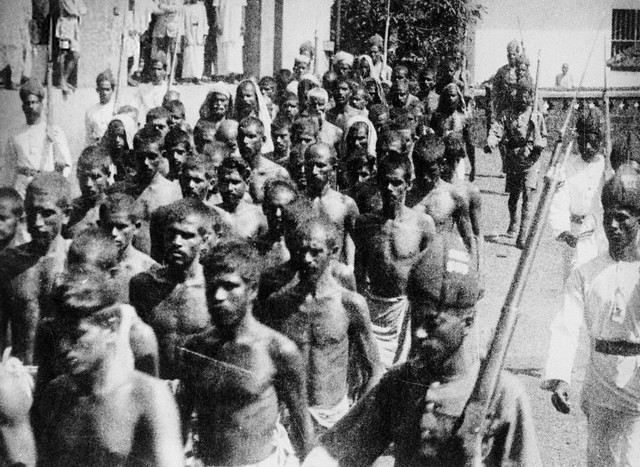 Mappila (Moplah rebels) captured after a battle with British colonial troops, during 1921-22 Mappila Uprising. This image falls into the public domain as it was taken in India prior to 1 January 1951, and was not published in India after that date. It is in public domain in the United States as well as it was taken prior to 1 January 1923.